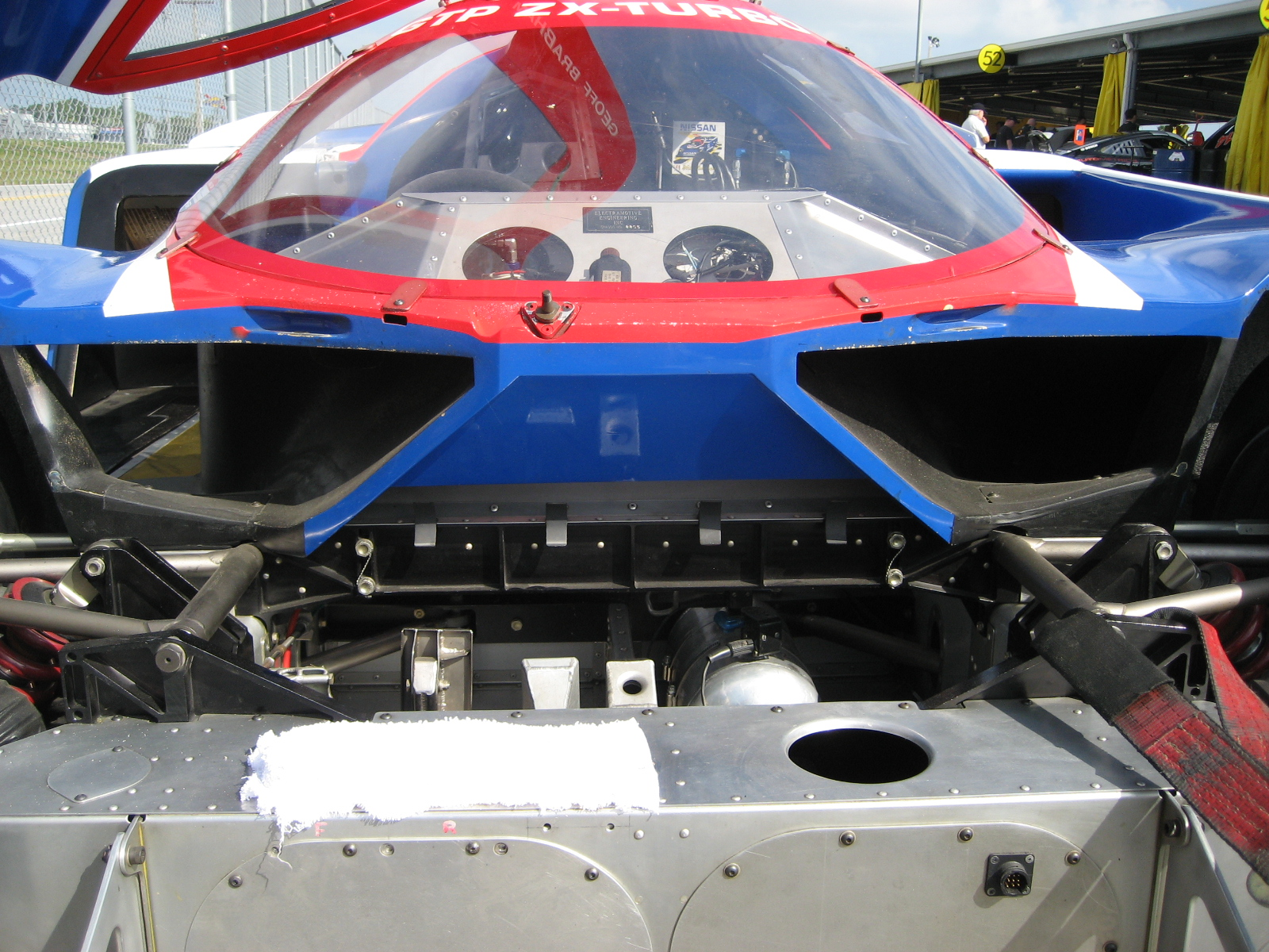 Nissan GTP ZX-Turbo chassis ZXT-8805.